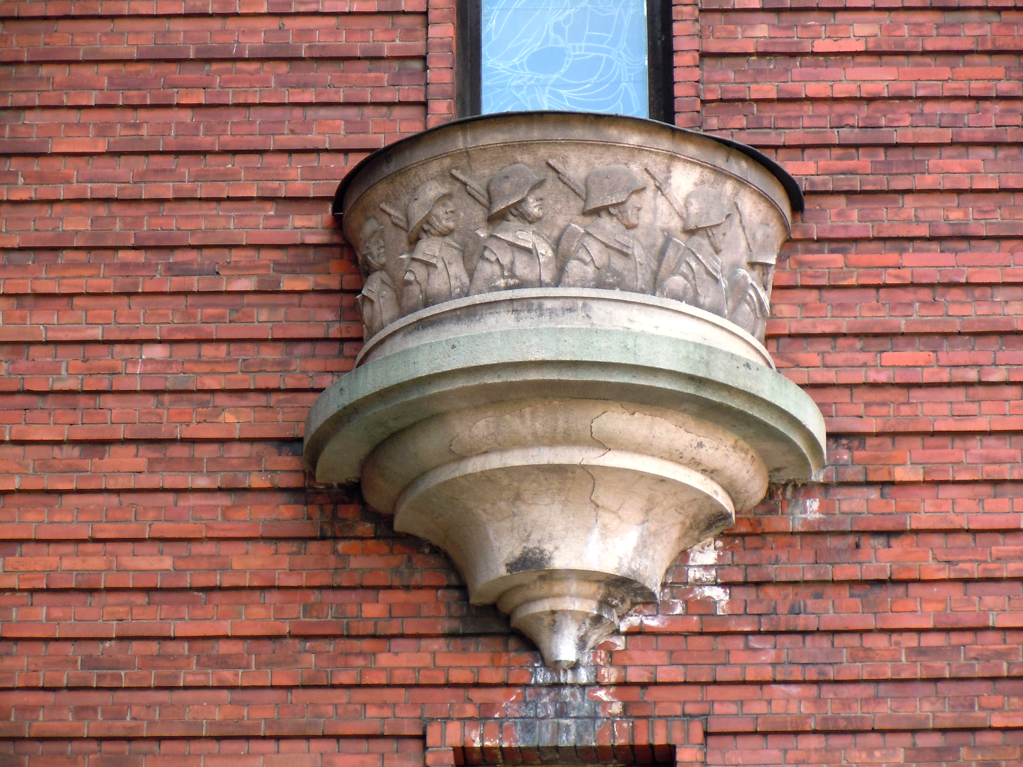 Latvian War Museum (located inside Gunpowder Tower). Smilšu iela 20. (lv. Latvijas Kara muzejs). Relief. Detail of the facade.